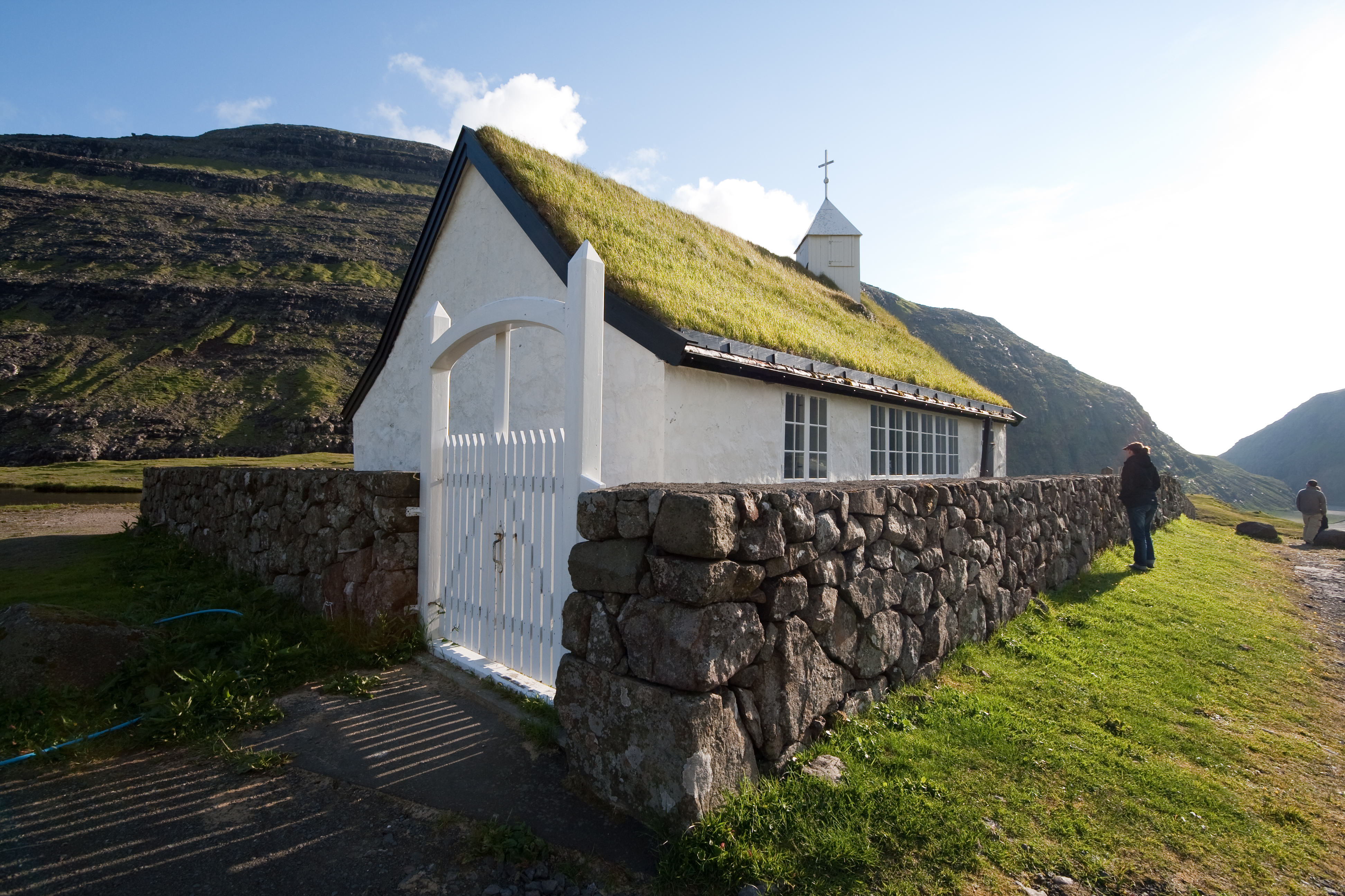 Church in Saksun, Faroe Islands